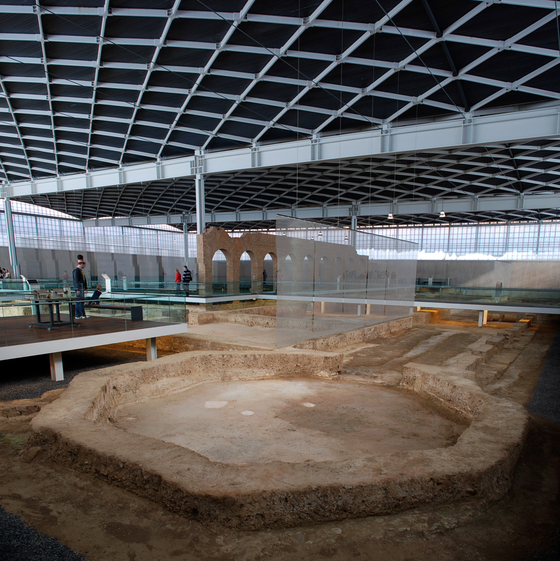 Octogonal tower at roman Villa of La Olmeda in Pedrosa de la Vega (Palencia, Castile and León).